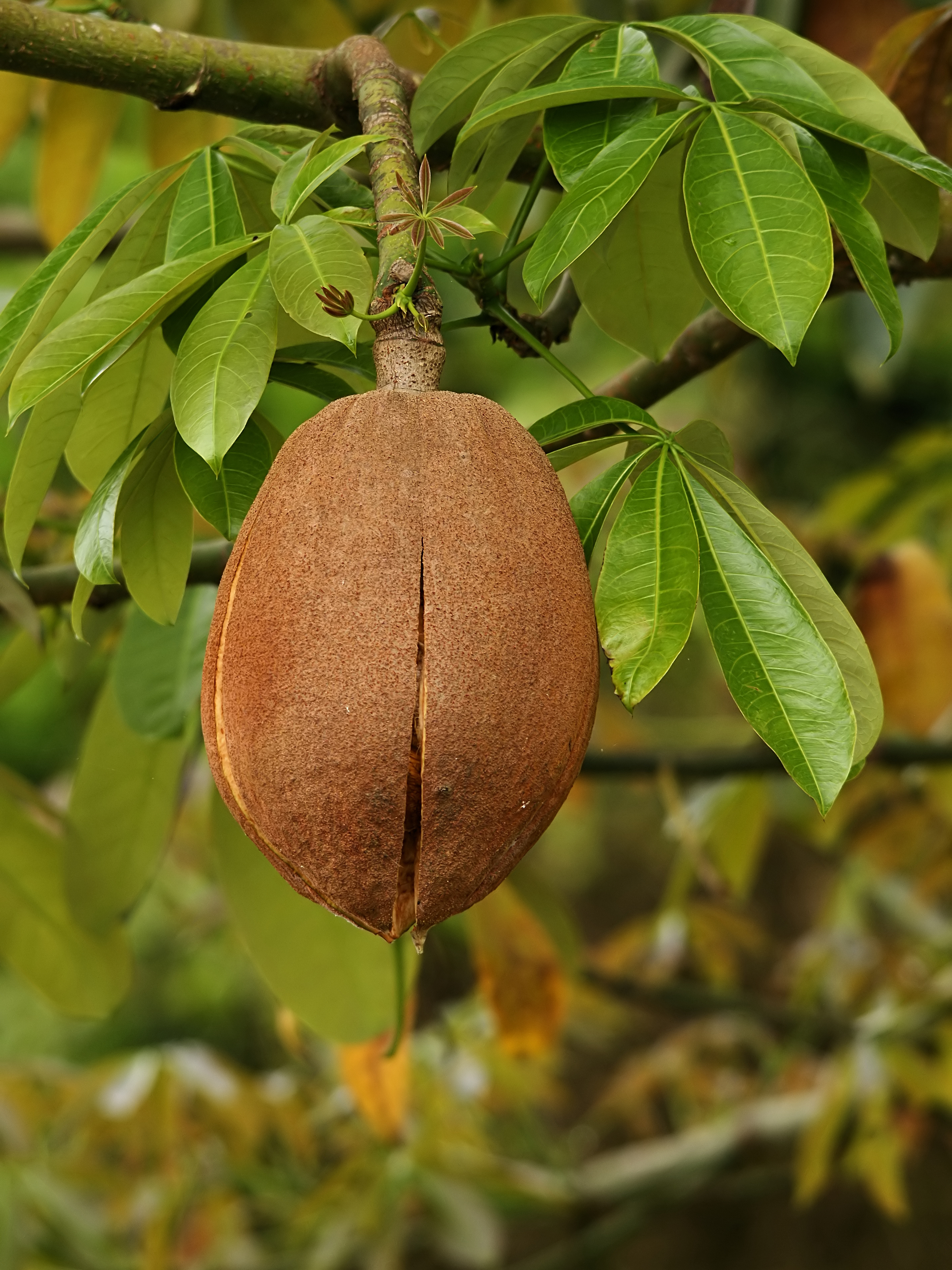 Guiana chestnut at Caño Negro, Costa Rica